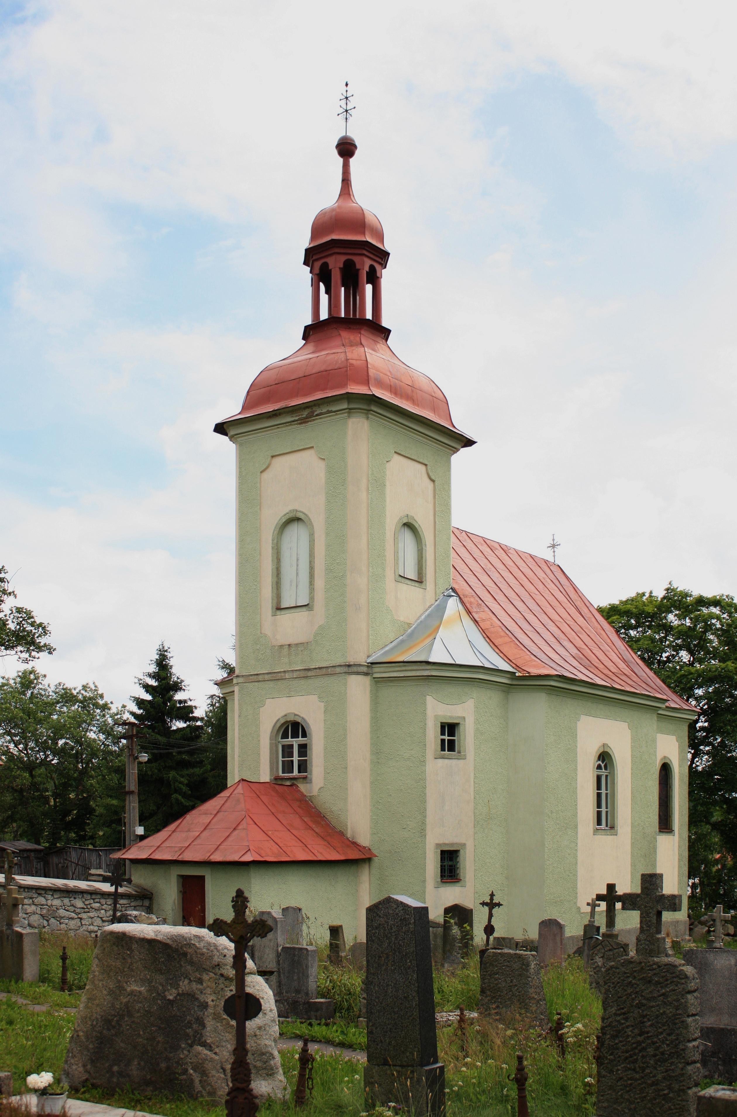 Horní Blatná (Czech Republic): Cemetery Chapel